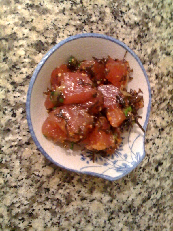 iPhone2 photo.